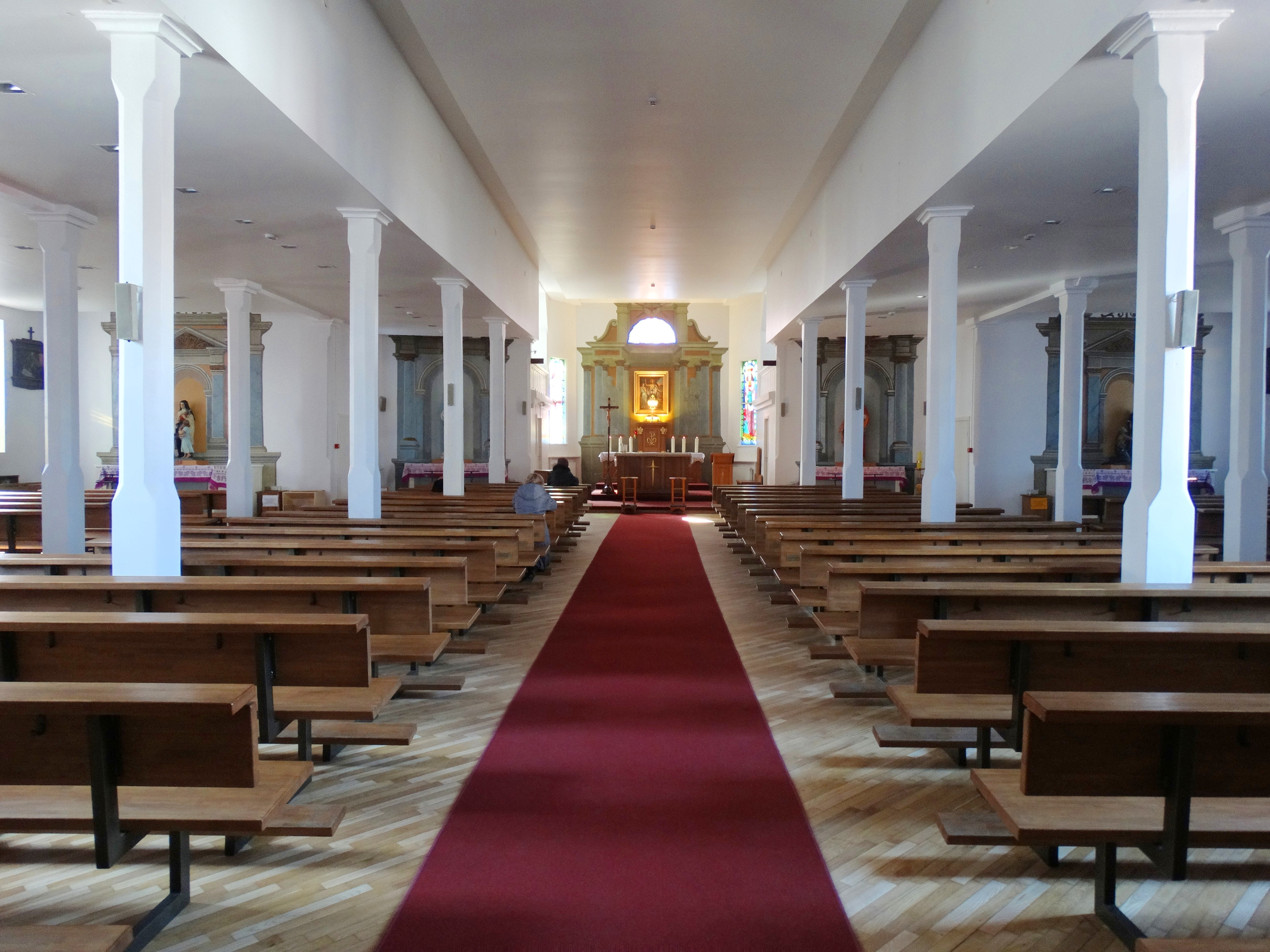 Minor Church of the Resurrection of Christ, interior, Kaunas, Lithuania